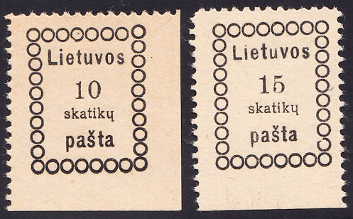 First postage stamps of Lithuania - First Vilnius Issue, named "Baltukas". Date of issue: December 27, 1918 Print house: Martynas Kukta print house (Vilnius) Printing: Letterpress printing Sheet: 20 (5x4) stamps on 120x115 mm sheet Paper: Yellowish, without gum Watermarks: Unwatermarked Perforation: 11¼, edges of sheet not perforated Notes: Counterfeits: White paper and uniform type. Well known variety eith inverted "h" has backstamp "Latfil", another variety vith normal "ų". Thr First Vilnius issue much thicker value numerals then Second Vilnius issue.